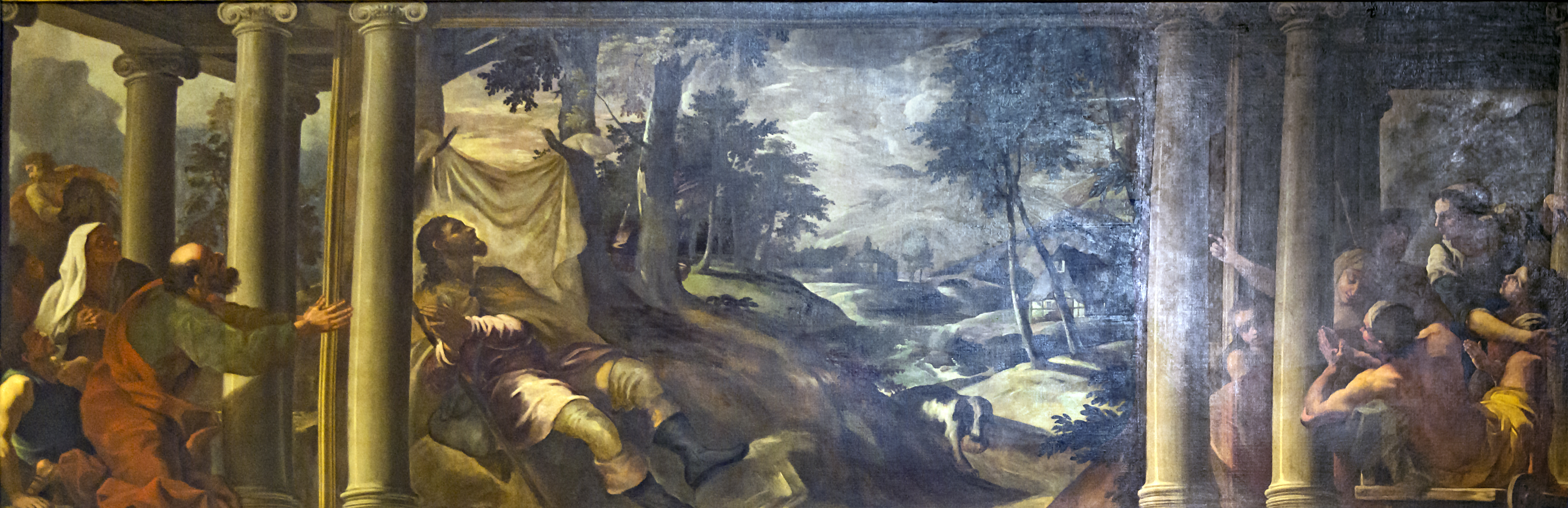 Church of San Rocco in Venice. San Rocco hit by plague by Il Tintoretto (1559).